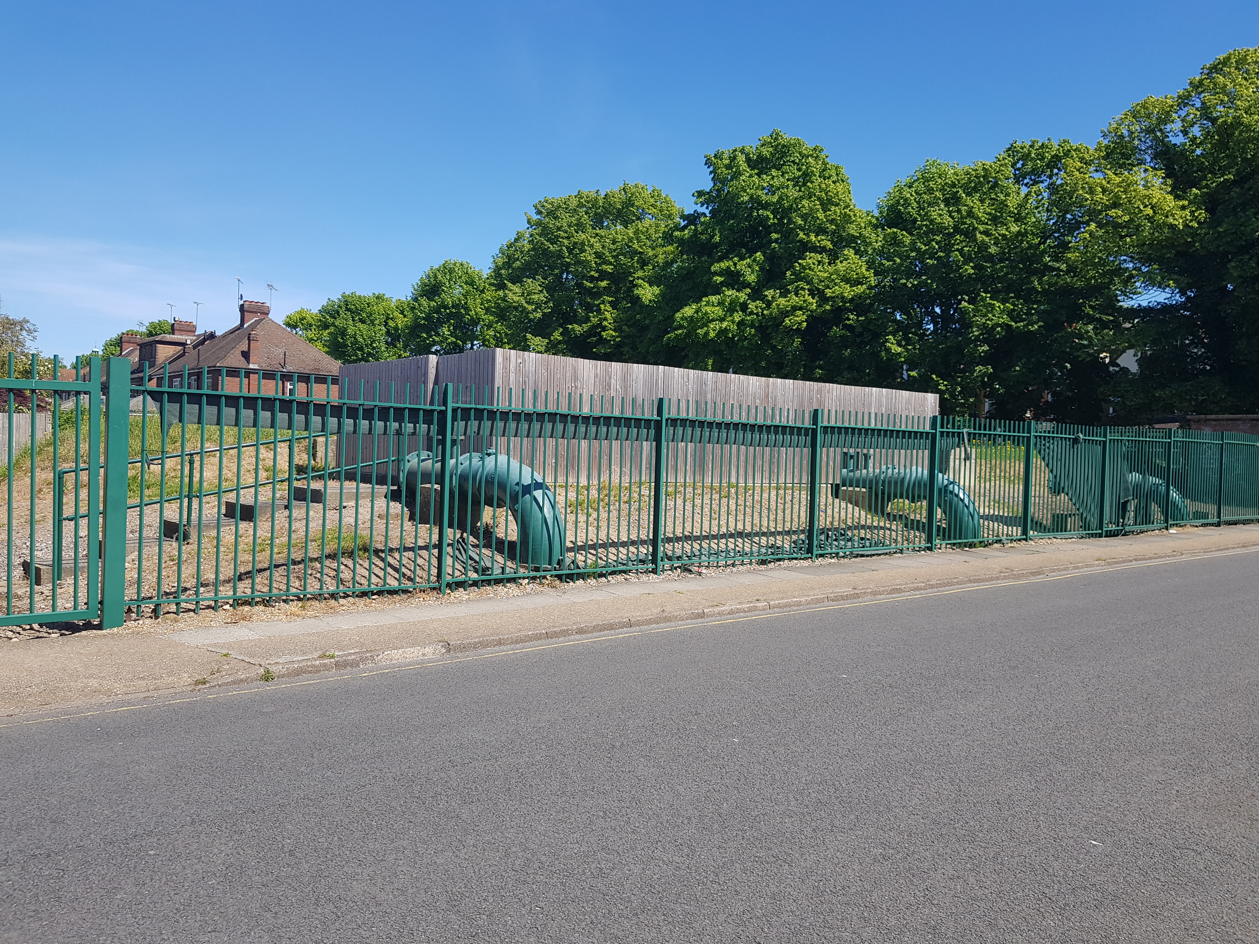 Some of the remaining functioning (surface level) water pipes in the residential part of Seething Wells. Most of the waterworks is decommissioned.